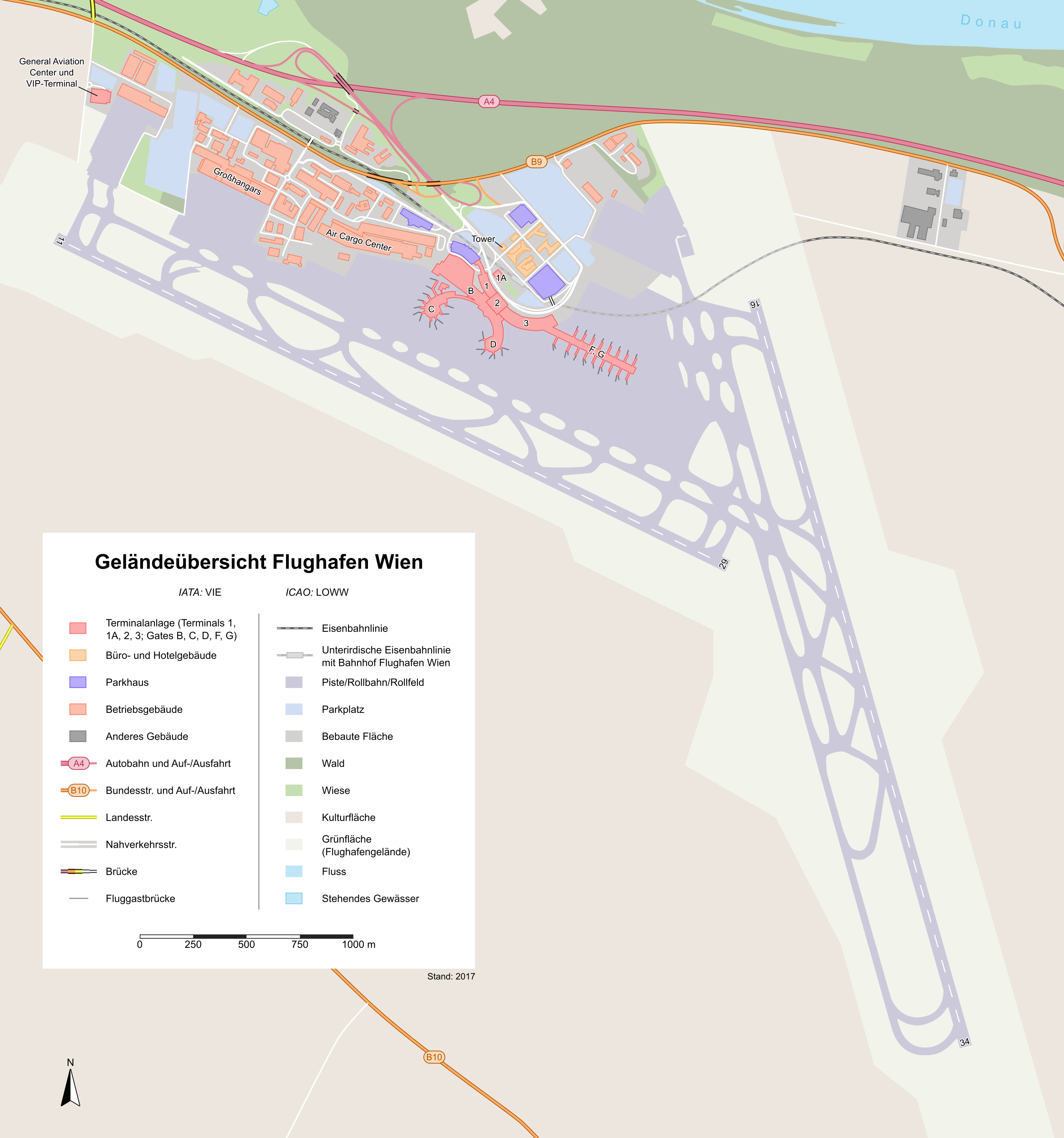 Map of Vienna International Airport, 2017